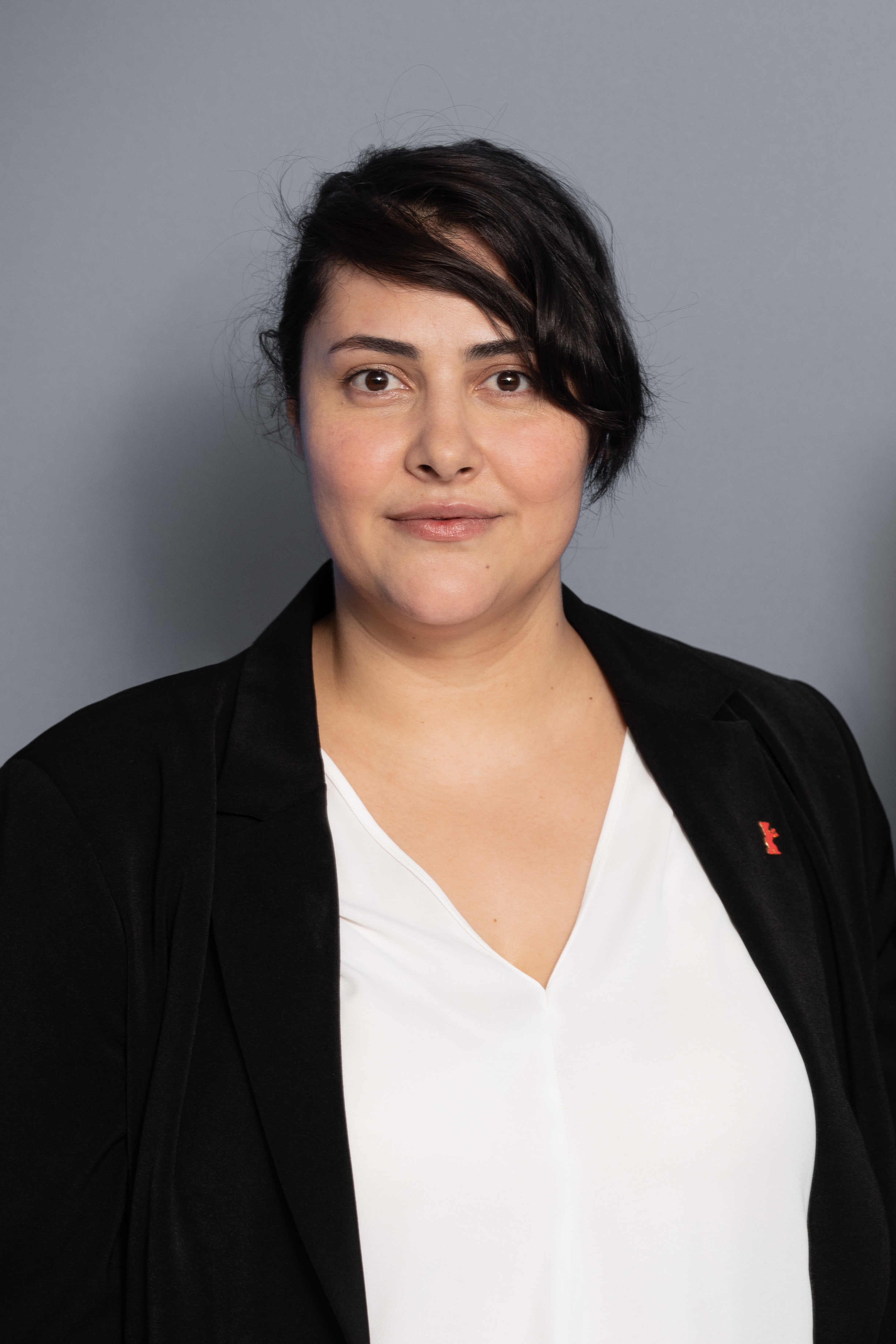 Zorica Nusheva presenting God Exists at the Berlinale 2019